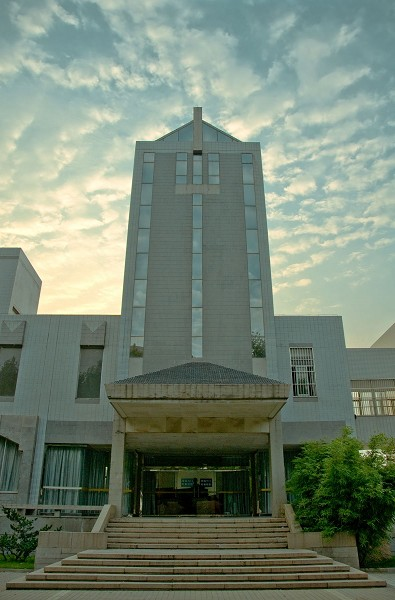 Building in CAU